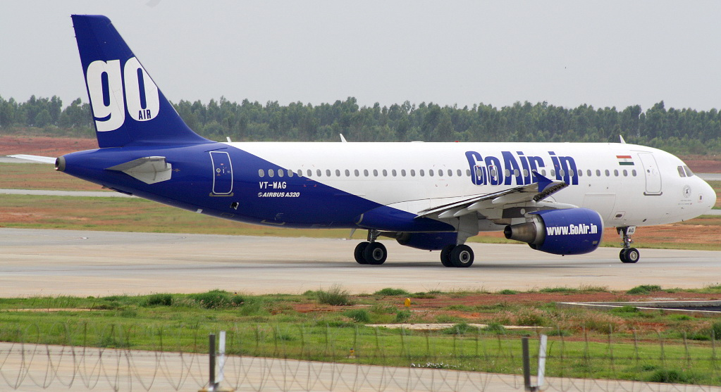 Airbus A320-200